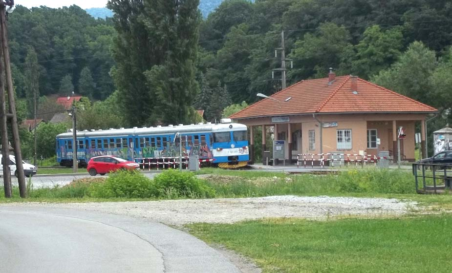 On halts between larger stations such as this one, local train makes scheduled stop which is long less than a minute (as long as necessary for loading / unloading of passengers).